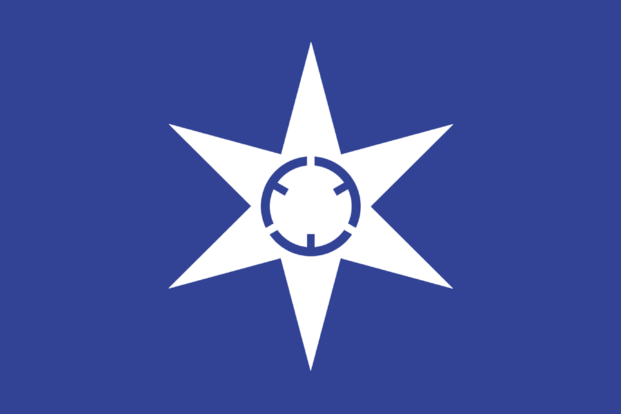 Flag of Mito, Ibaraki